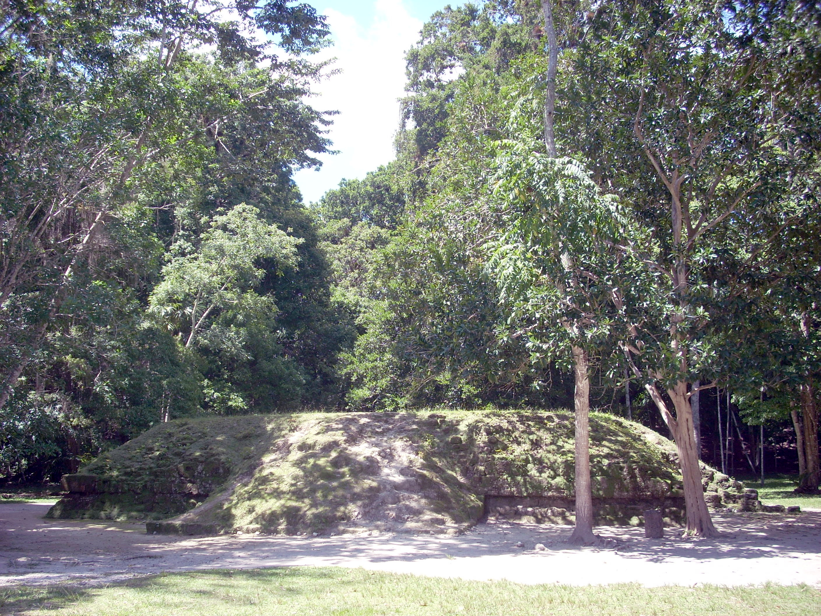 Platform 5C-53 immediatly to the west of the Lost World Pyramid in the Mundo Perdido Complex, Tikal, Guatemala.